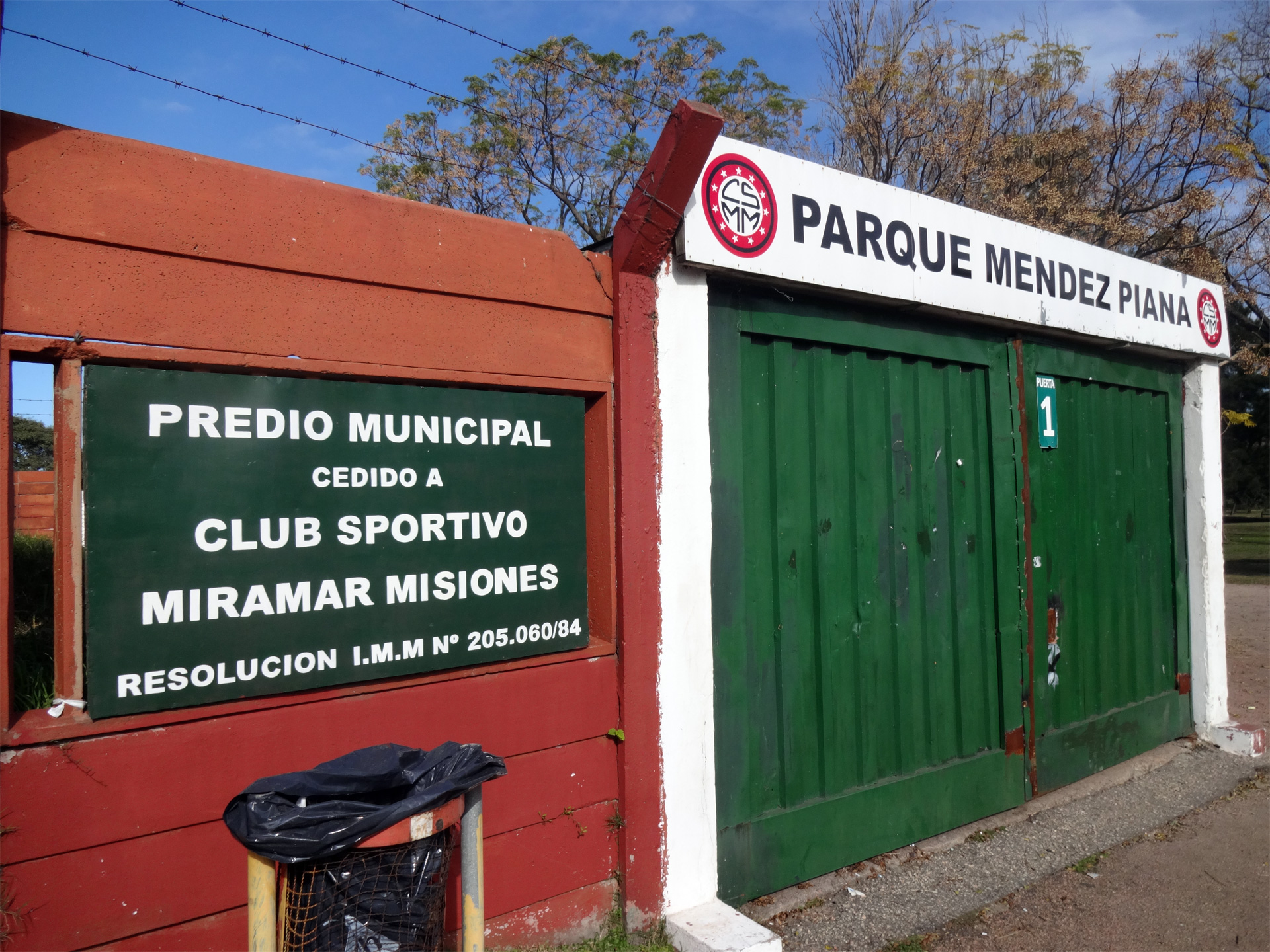 The Parque Luis Méndez Piana Stadium in Montevideo. Facade.